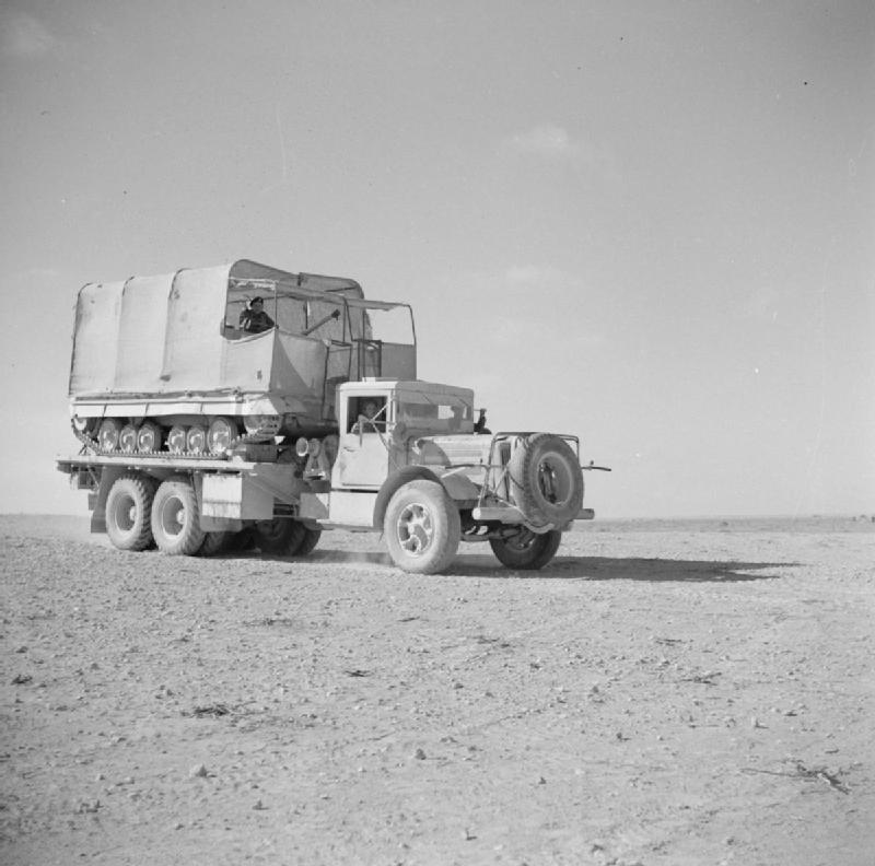 The British Army in North Africa 1942 A transporter carrying a Valentine tank camouflaged as a lorry, May 1942.